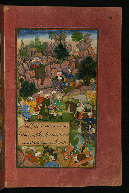 Illustrations from the Manuscript of Baburnama (Memoirs of Babur) - Late 16th Century Bāburnāma is the memoirs of Ẓahīr ud-Dīn Muḥammad Bābur (1483-1530), founder of the Mughal Empire and a great-great-great-grandson of Timur. It is an autobiographical work, originally written in the Chagatai language, known to Babur as "Turki" (meaning Turkic), the spoken language of the Andijan-Timurids. Because of Babur's cultural origin, his prose is highly Persianized in its sentence structure, morphology, and vocabulary,and also contains many phrases and smaller poems in Persian. During Emperor Akbar's reign, the work was completely translated to Persian by a Mughal courtier, Abdul Rahīm, in AH (Hijri) 998 (1589-90). These Paintings, being a fragment of a dispersed copy, was executed most probably in the late 10th AH /16th CE century. It contains 30 mostly full-page miniatures in fine Mughal style by at least two different artists. Another major fragment of this work (57 folios) is in the State Museum of Eastern Cultures, Moscow.